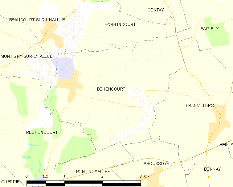 Map of French municipality Béhencourt